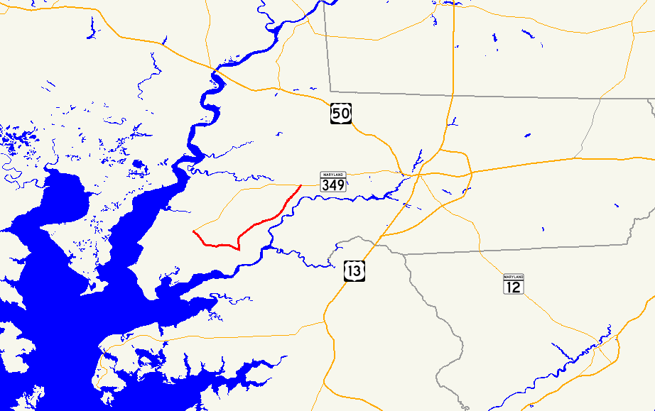 Map of Maryland Route 352